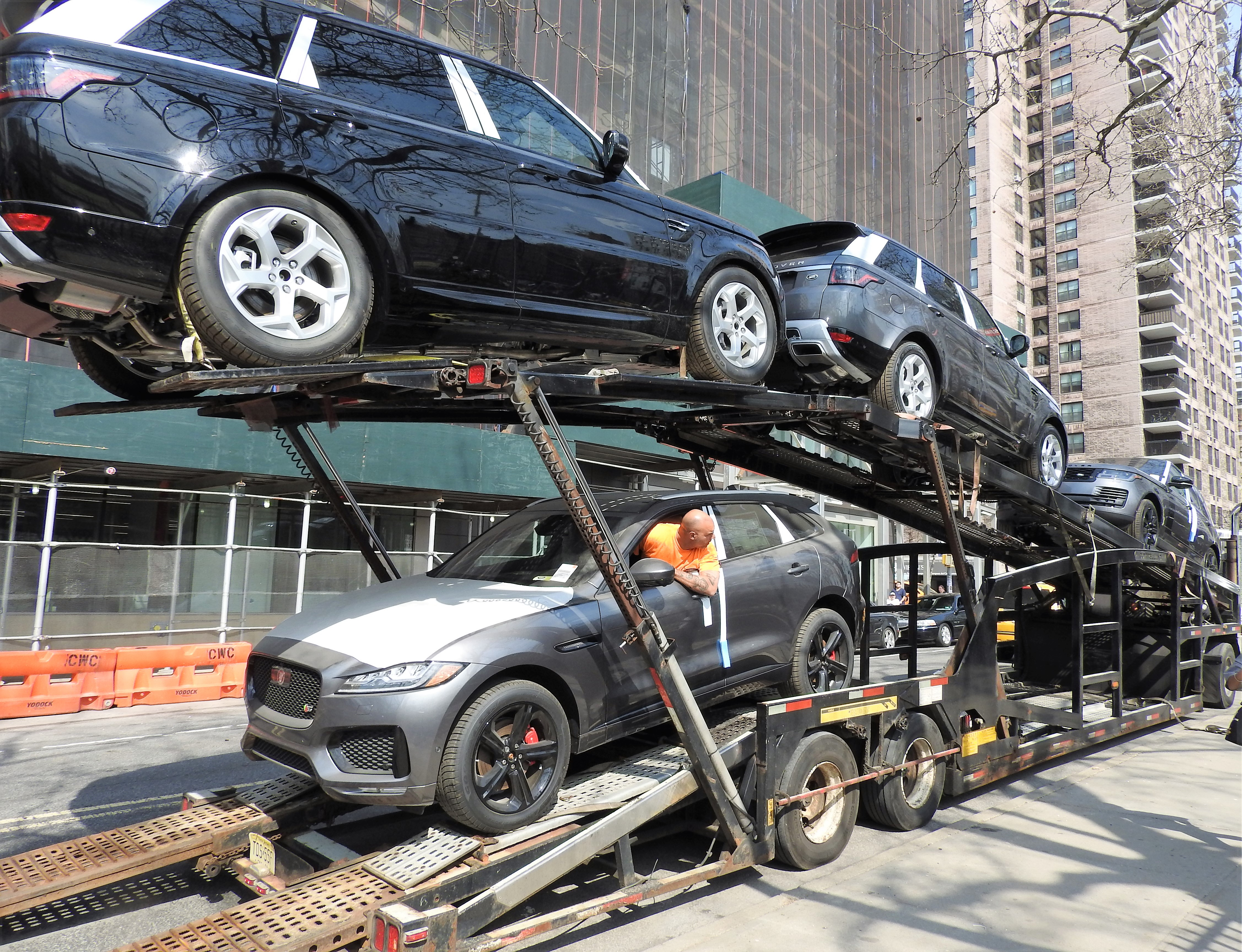 Looking east at car carrier